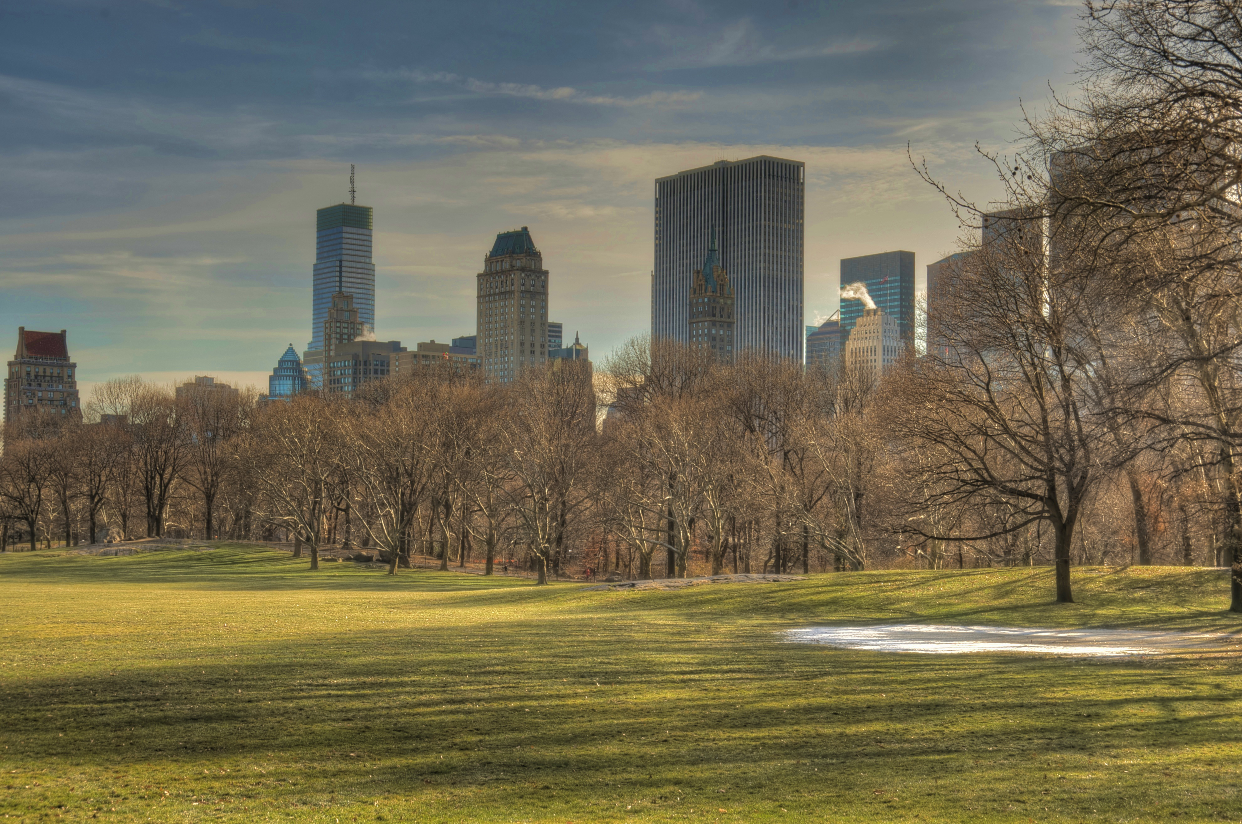 This is a view of Central Park's Sheep Meadow, near the northwest corner at the old Tavern on the Green -- looking across the meadow toward the southeast corner of Central Park. It's an entirely different scene from this view, taken when the meadow is full of people in the summertime...